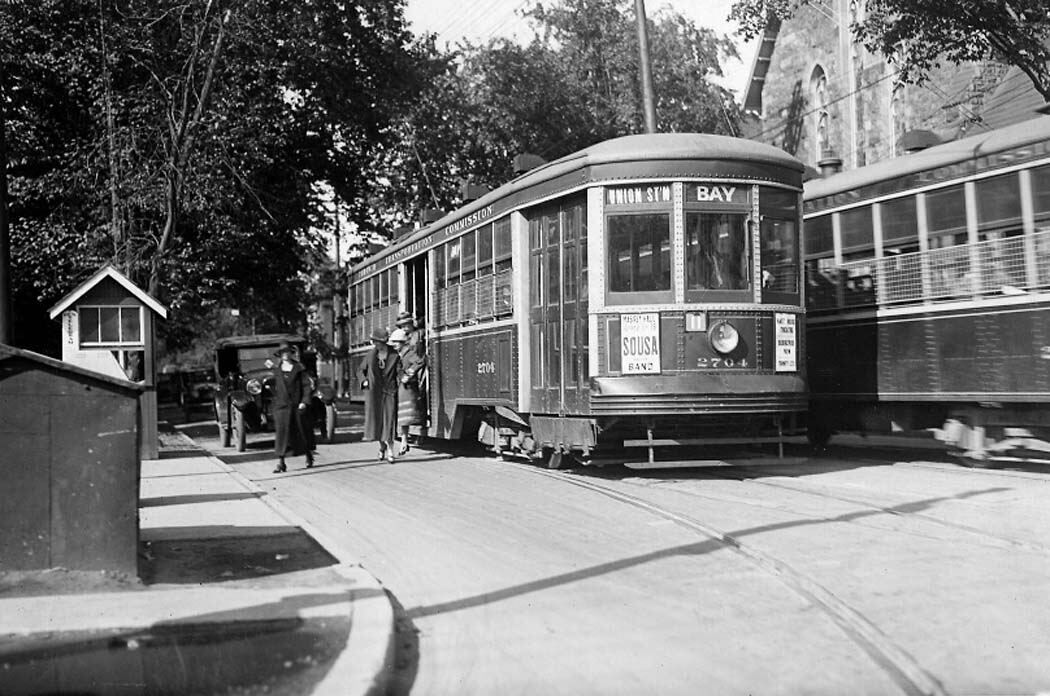 Peter Witt streetcar on former Bay Street route, in Toronto, in 1925. This image is available from the City of Toronto Archives, listed under the archival citation Series 71, s0071 it4039. This tag does not indicate the copyright status of the attached work. A normal copyright tag is still required. See Commons:Licensing for more information.